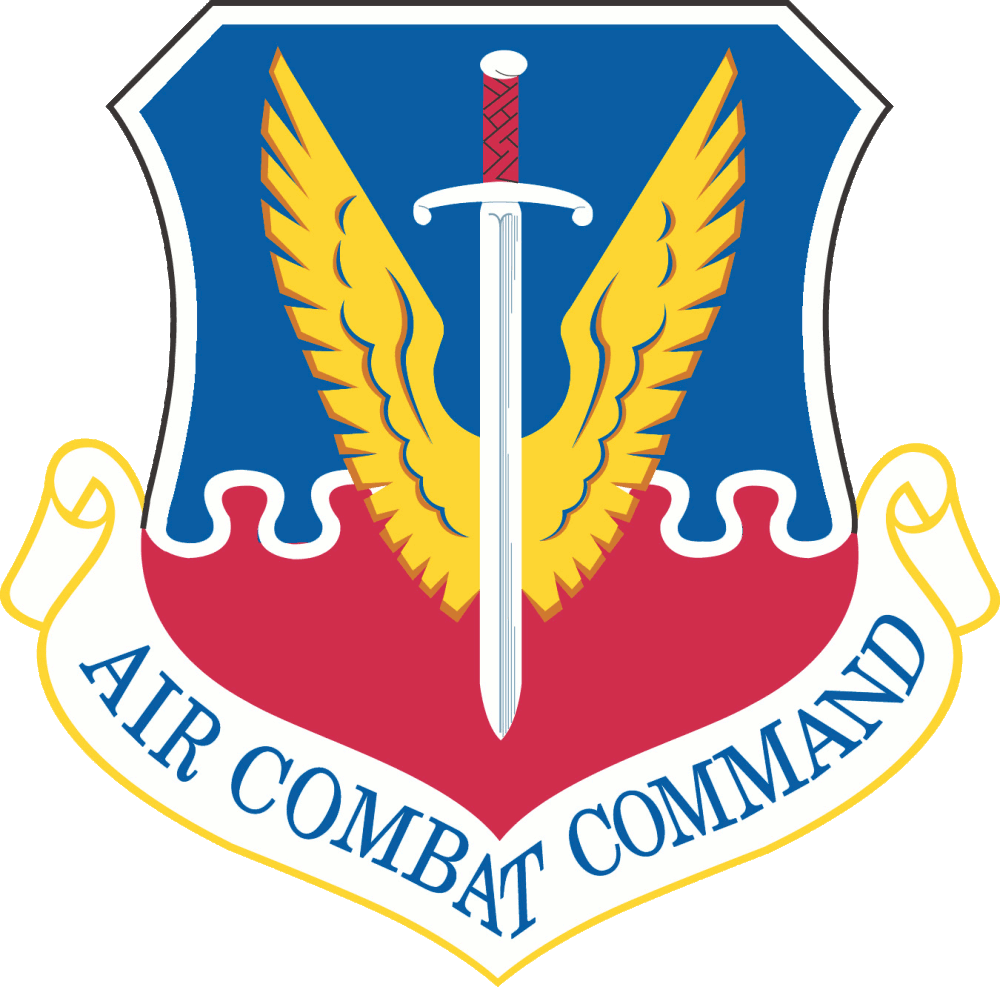 Emblem of the USAF Air Combat Command